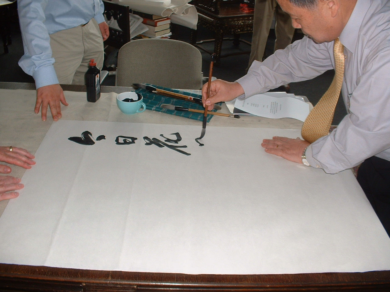 the Chinese calligrapher Sun Xinde